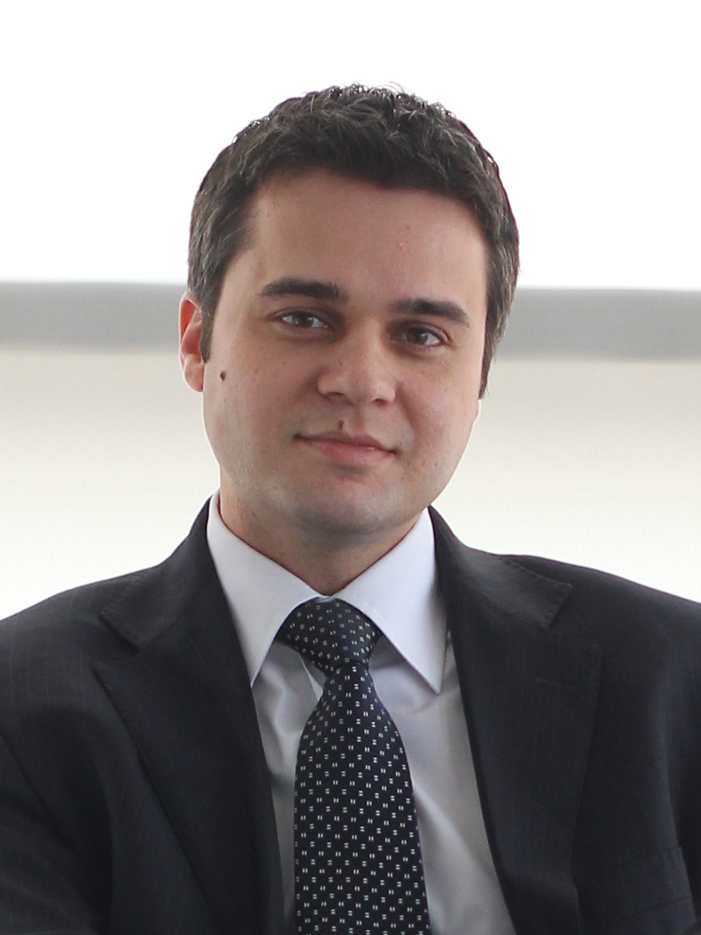 Adrian Stanciu, CEO Smartree Romania.